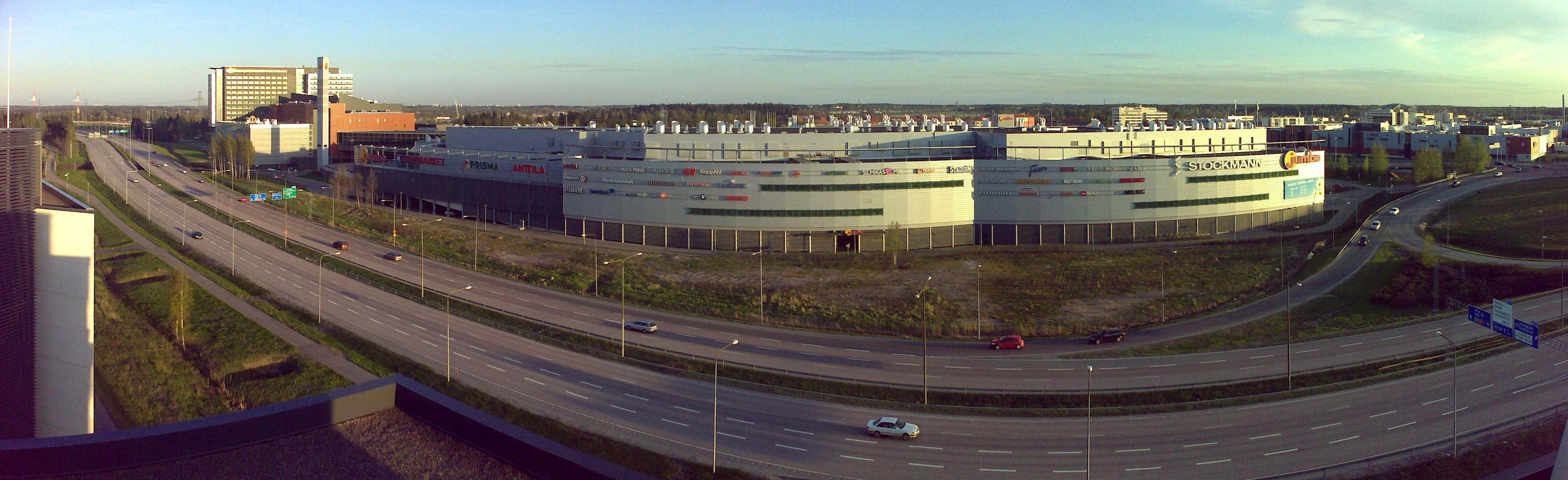 Cellphone panorama of Shopping center Jumbo in Vantaa, Finland.